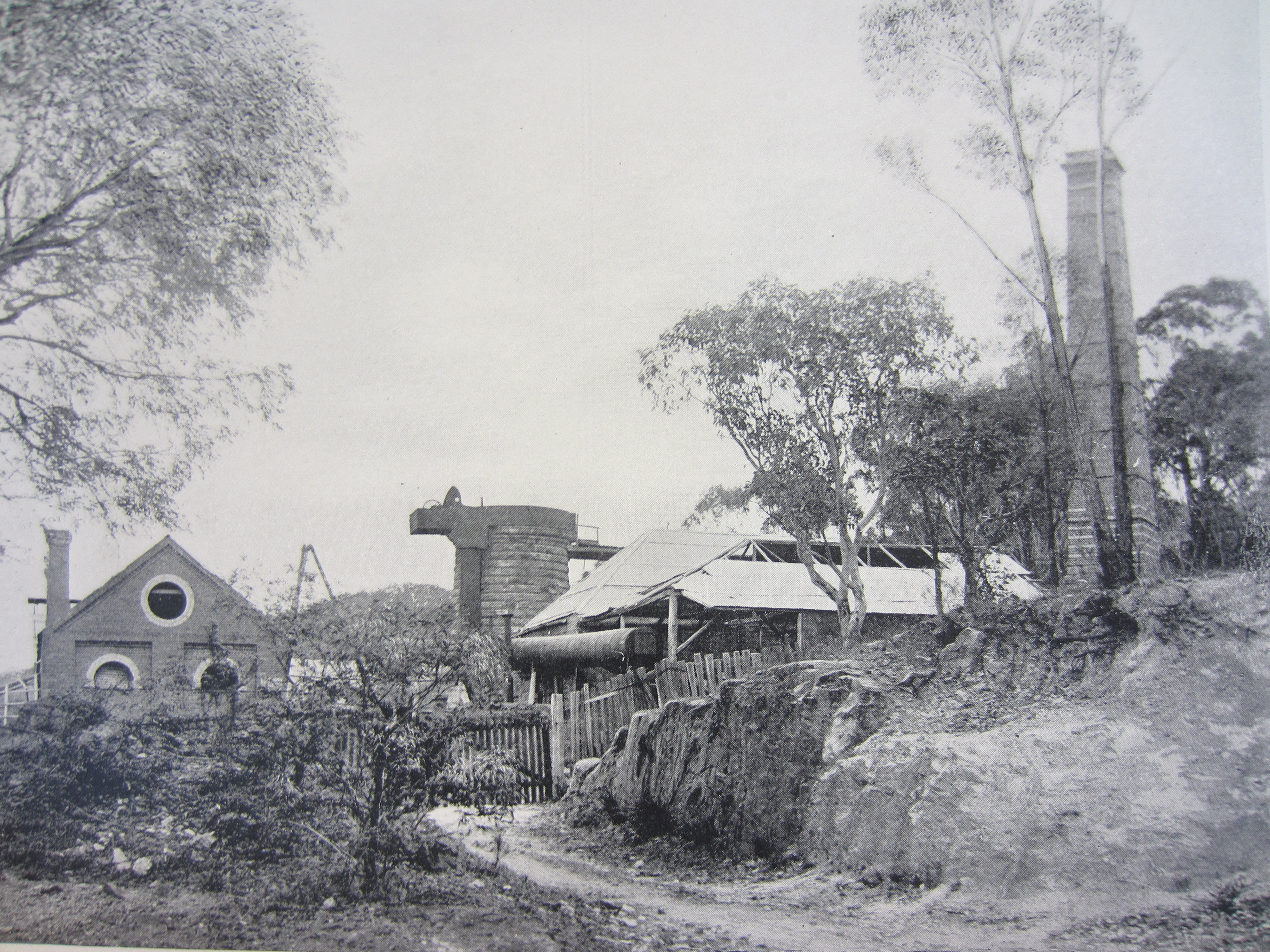 Fitzroy Iron works - 'Top works' or blast furnace area (c.1901). The tall round structure is the blast furnace.